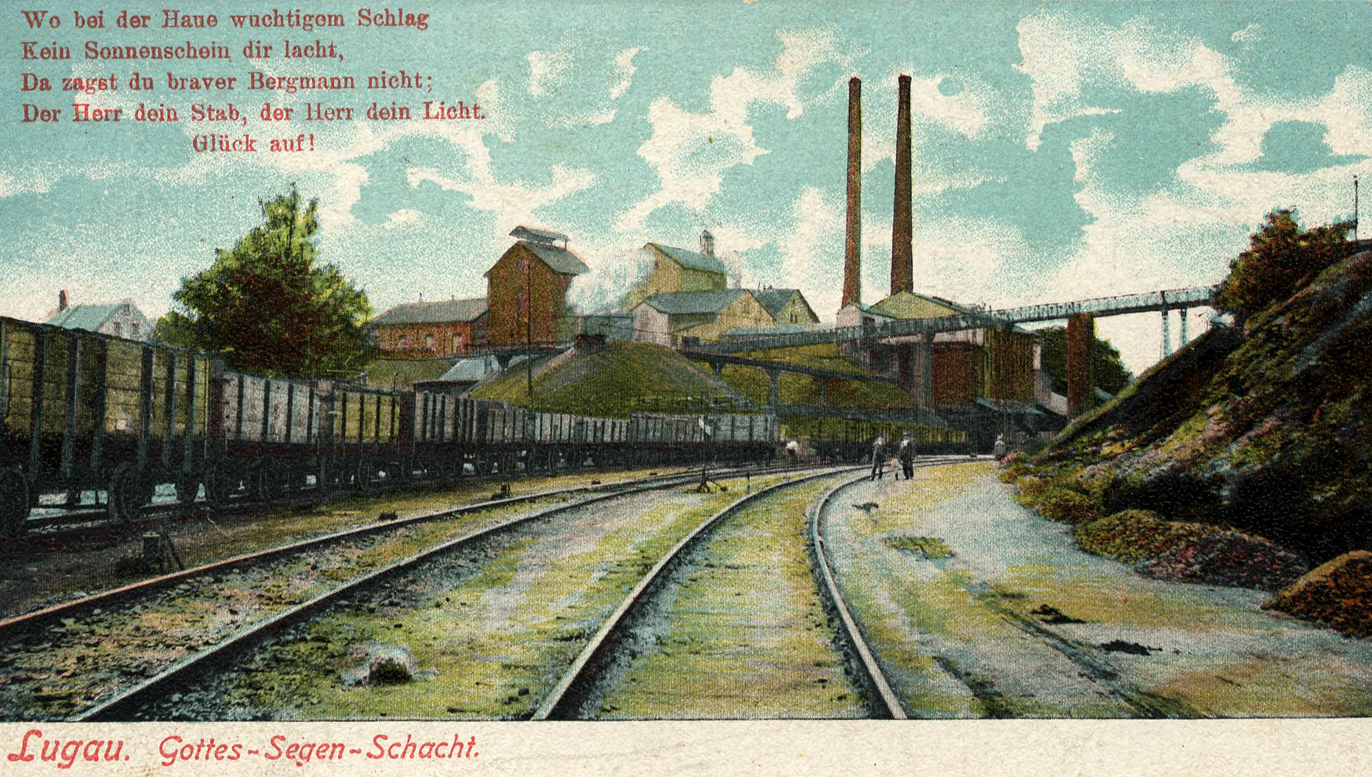 This image shows the Gottes-Segen-Shaft (coal mine) in Lugau.